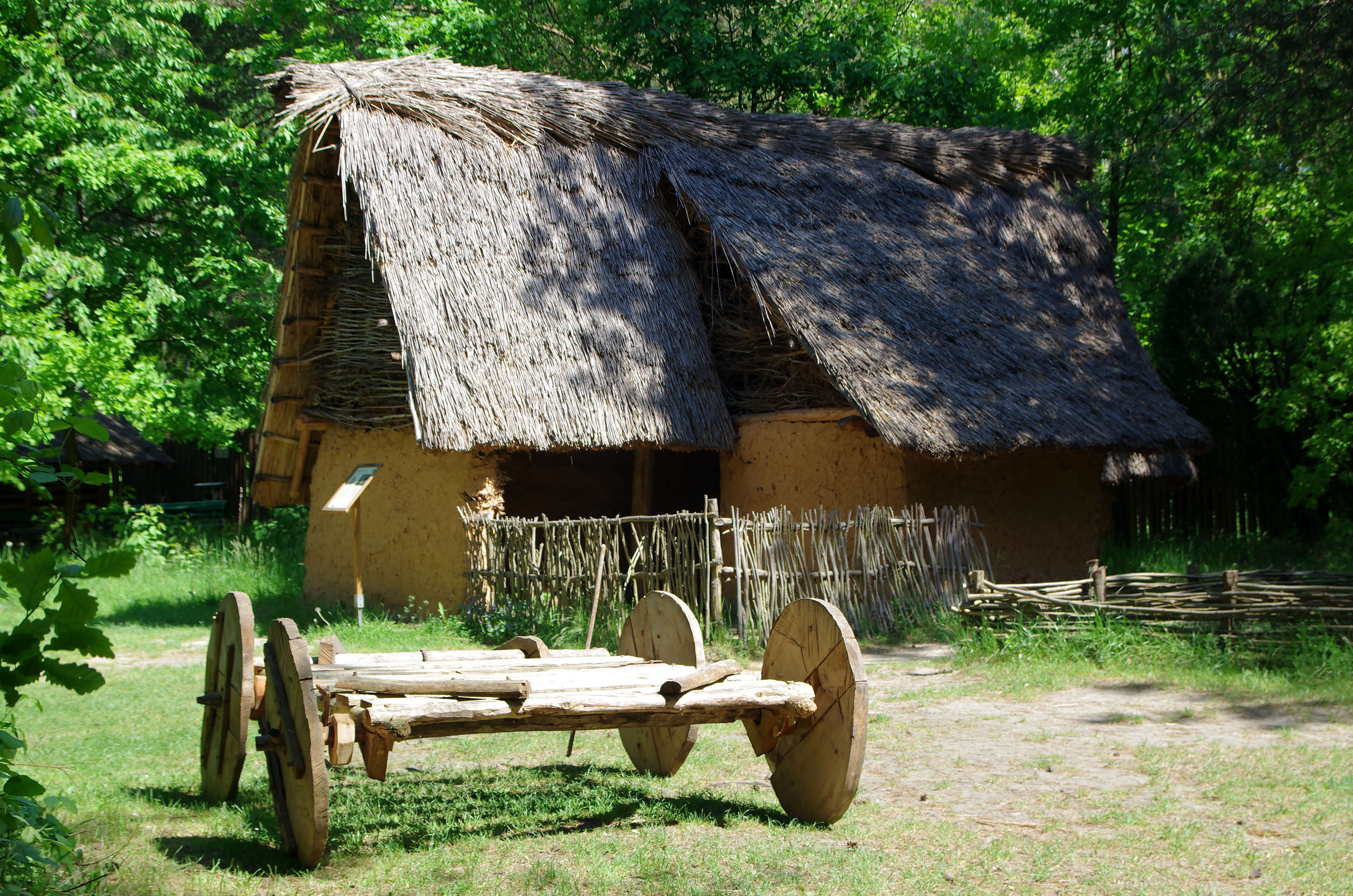 Archaeological Reserve Krzemionki